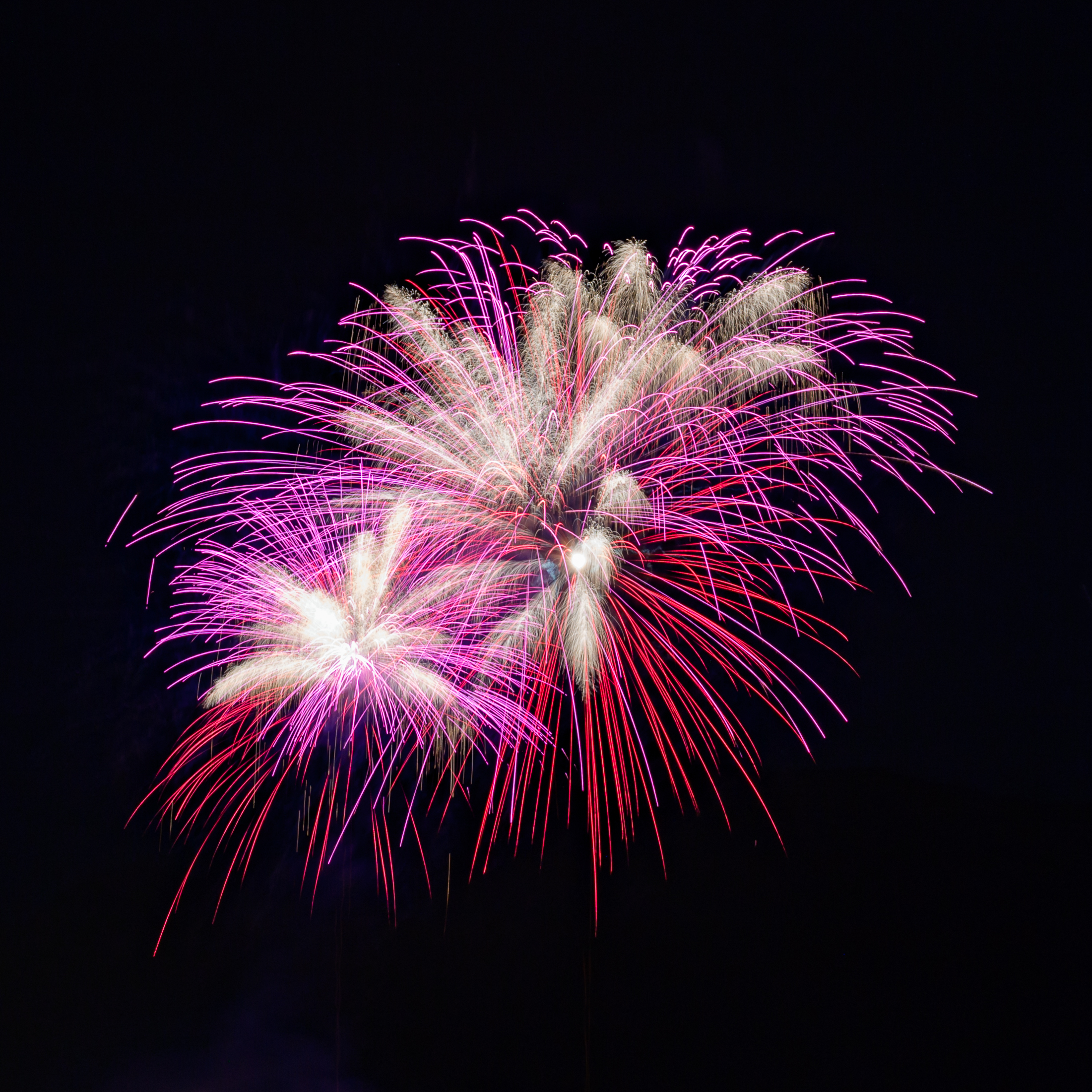 Fireworks in Annecy, France.